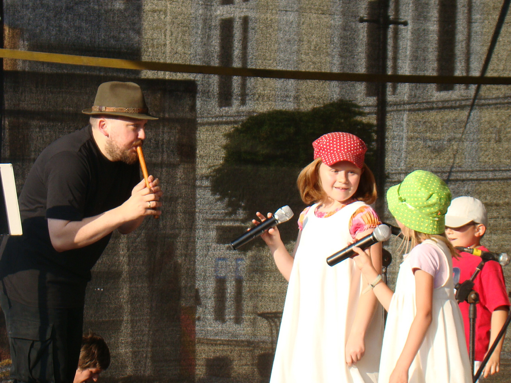 Dzieci z Brodą in Sanok